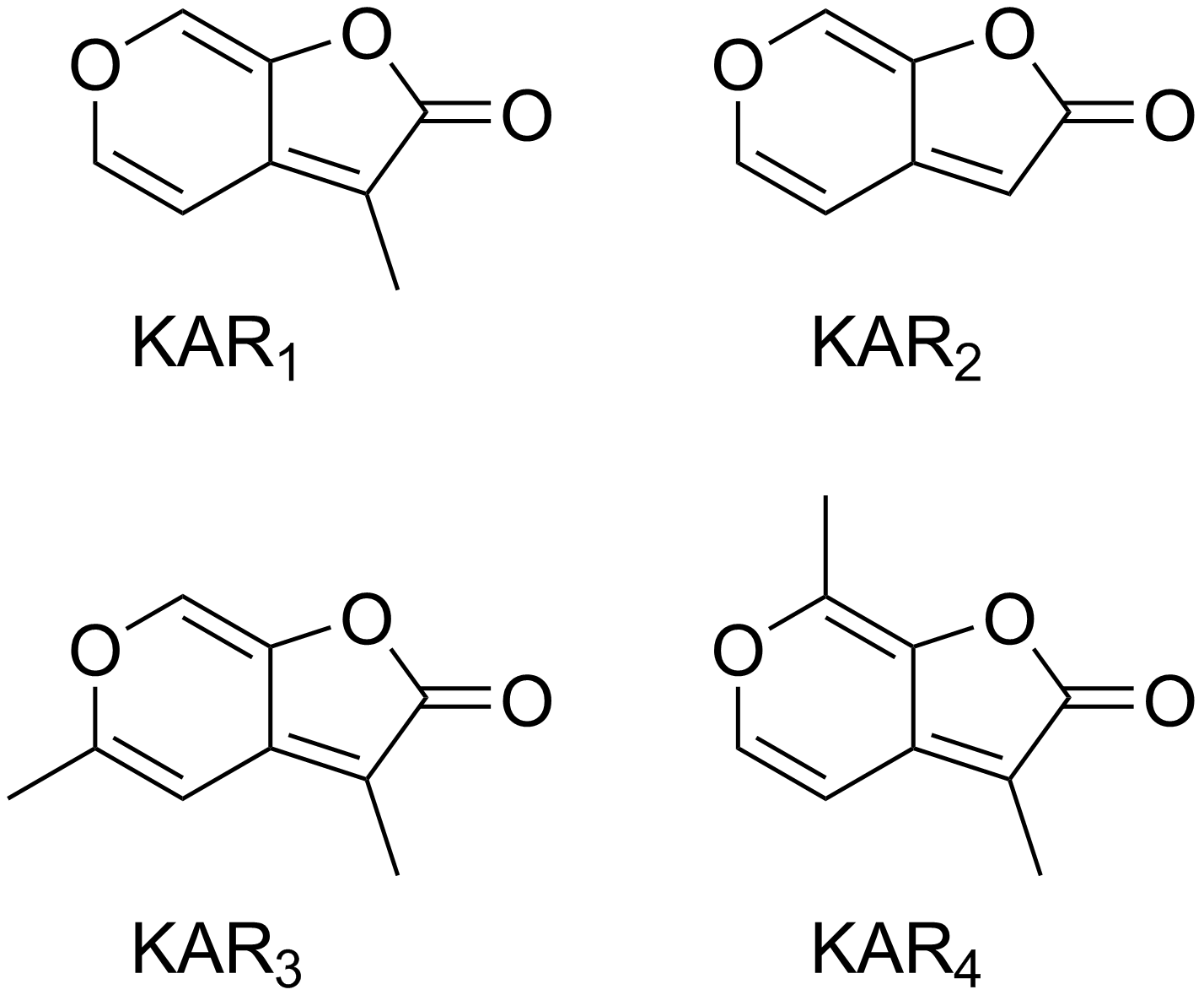 Chemical structure of the karrikins (KAR1, KAR2, KAR3, KAR4)